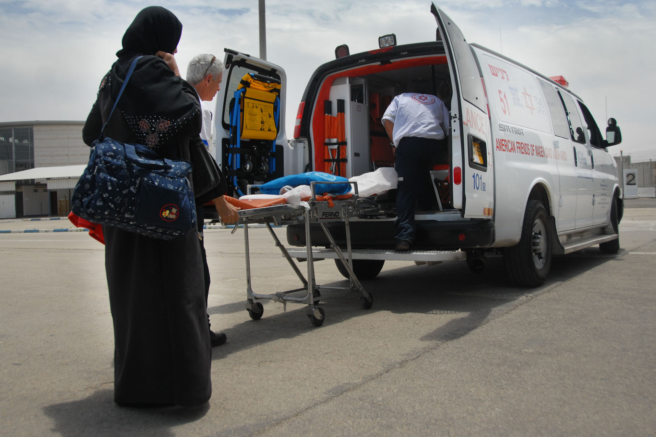 May 20th, 2011. 10 Gazans were transferred for medical treatment in Israel through the Erez crossing. Photography: Cpl. Gal Ashuach, IDF Spokesperson's Unit עשרה תושבי רצועת עזה הועברו לישראל דרך מעבר ארז על-מנת לקבל טיפול רפואי.